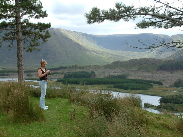 Sheeffry Picnic Spot. A designated picnic spot on the lonely and only road through the Sheeffry Hills. There is one picnic bench here and one seat. But great views of the loughs and hills...